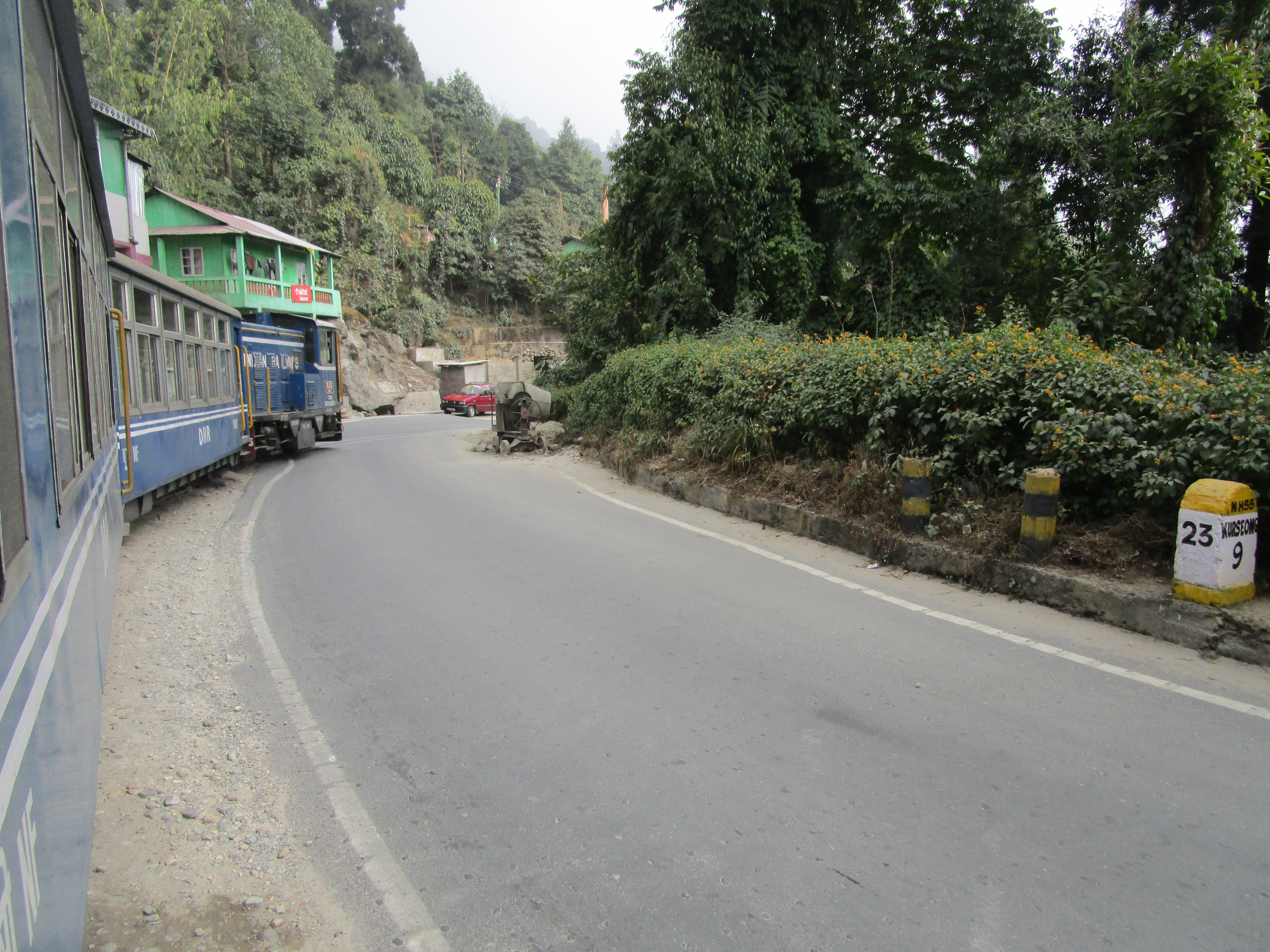 National Highway 55 (India) at 9 kilometer upway from Kurseong.